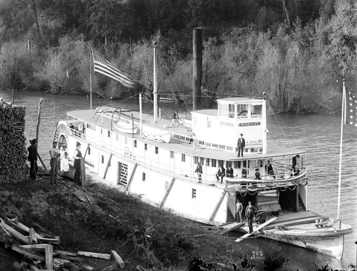 Sternwheeler MASCOT docked on river, probably vicinity of lower Columbia River, c. 1900